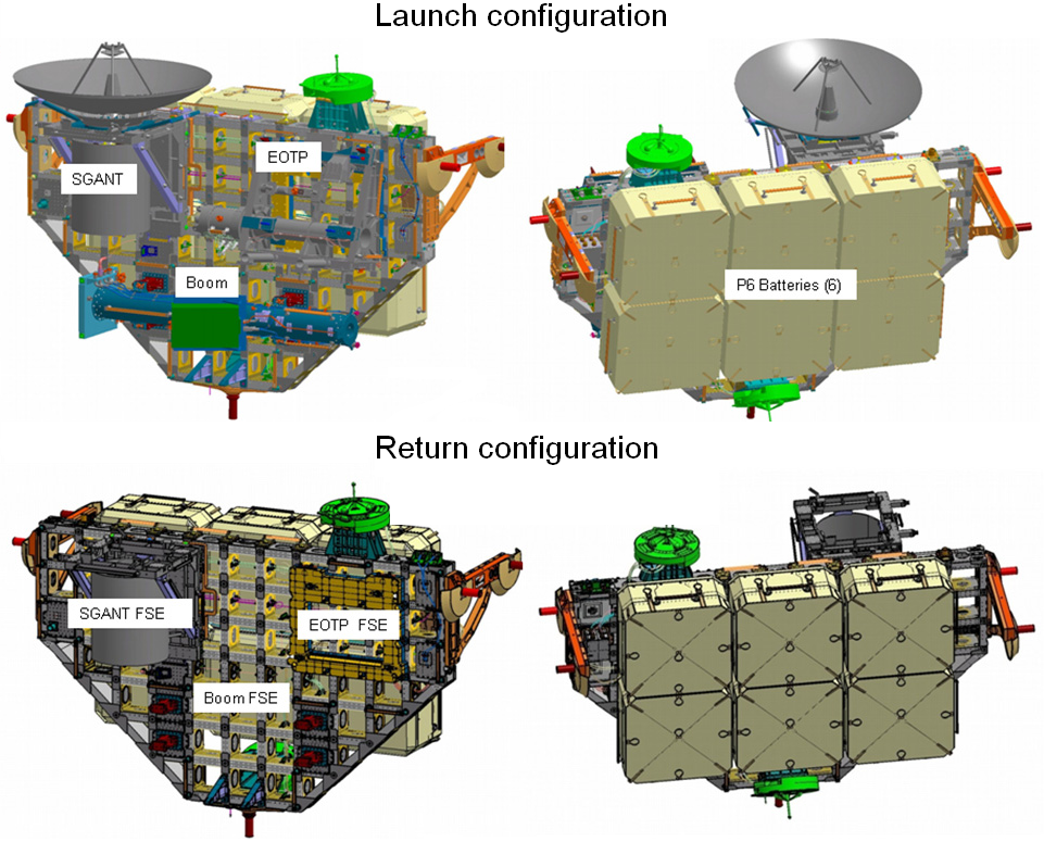 ICC-VLD launch and return configuration for STS-132 mission.